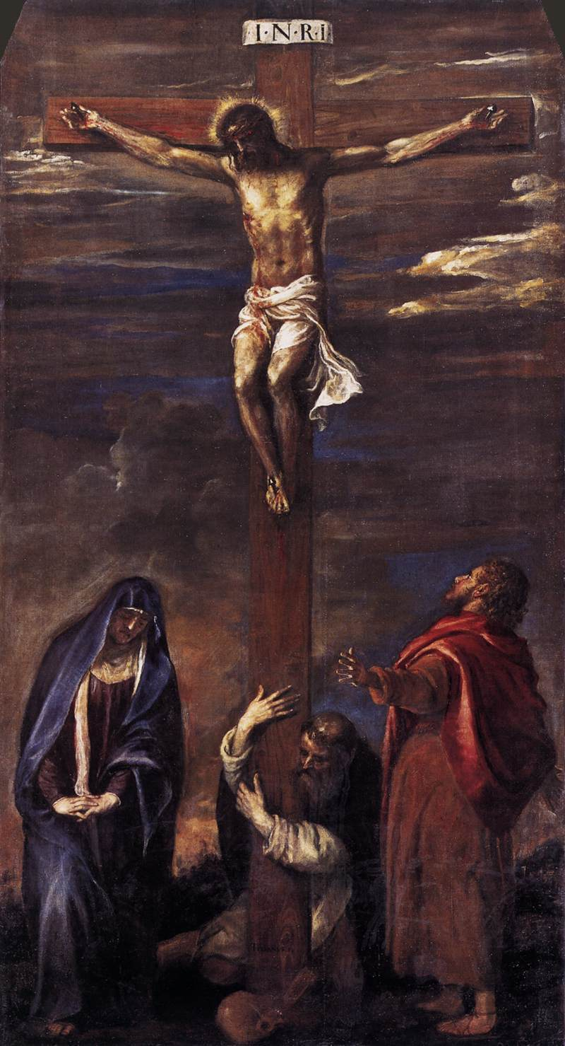 Ancona Crucifiction